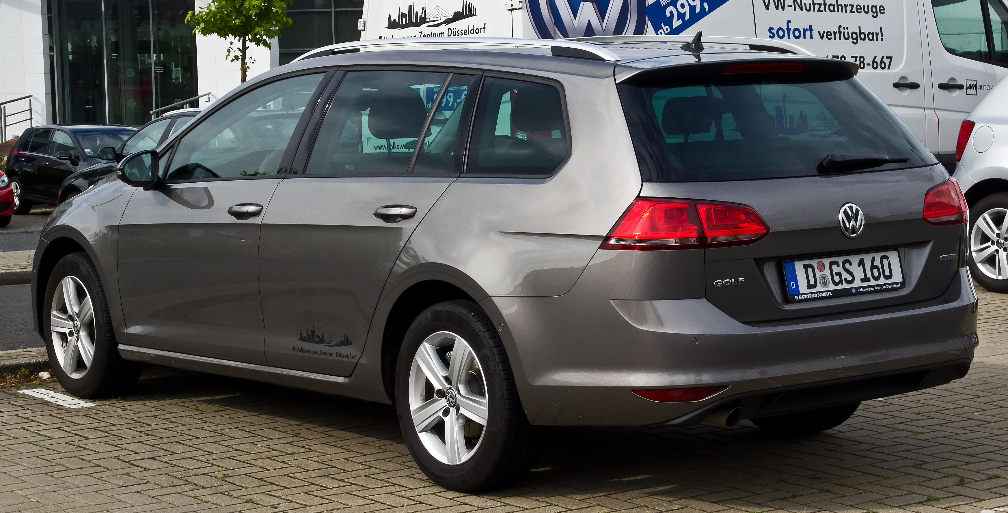 VW Golf Variant 1.6 BlueTDI Comfortline (VII)